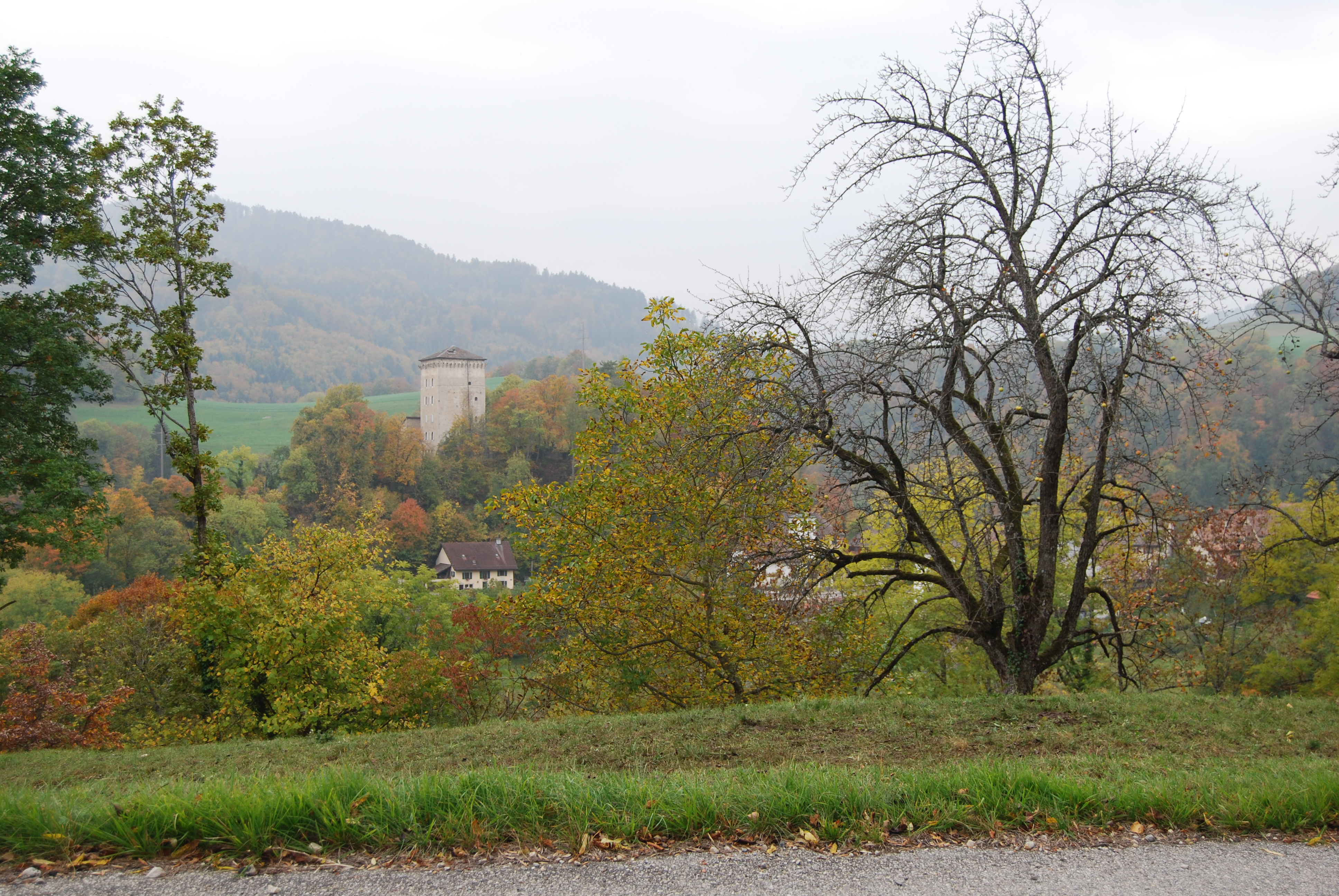 Les Clées, canton of Vaud, Switzerland